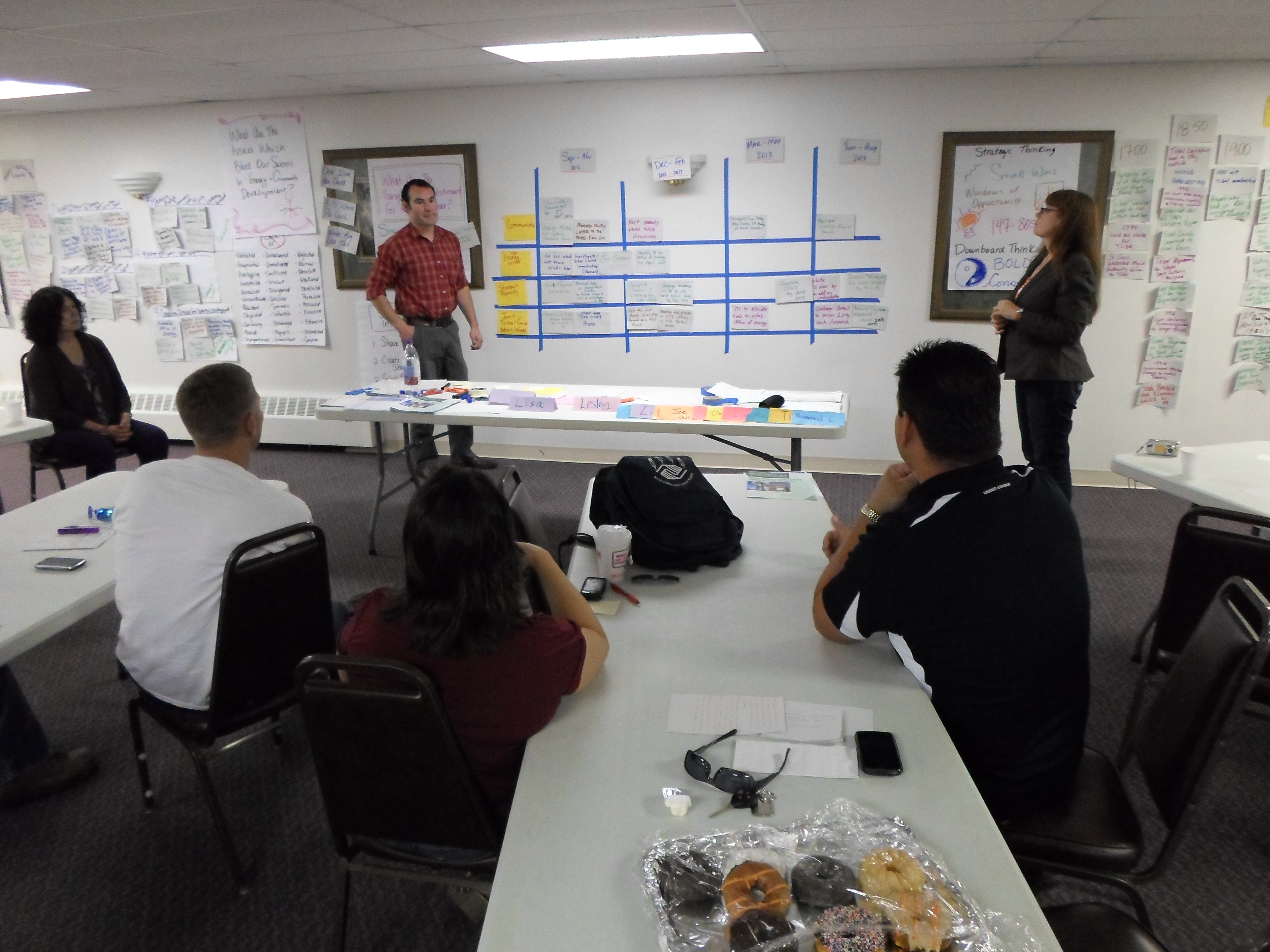 January 3, 2012 - The START energy planning workshop held at the Passamaquoddy Tribes of Indian Township and Pleasant Point in Maine helped open the lines of communication between two reservations that exist under a single Tribe. | Photo courtesy of Paul Dearhouse, NREL.